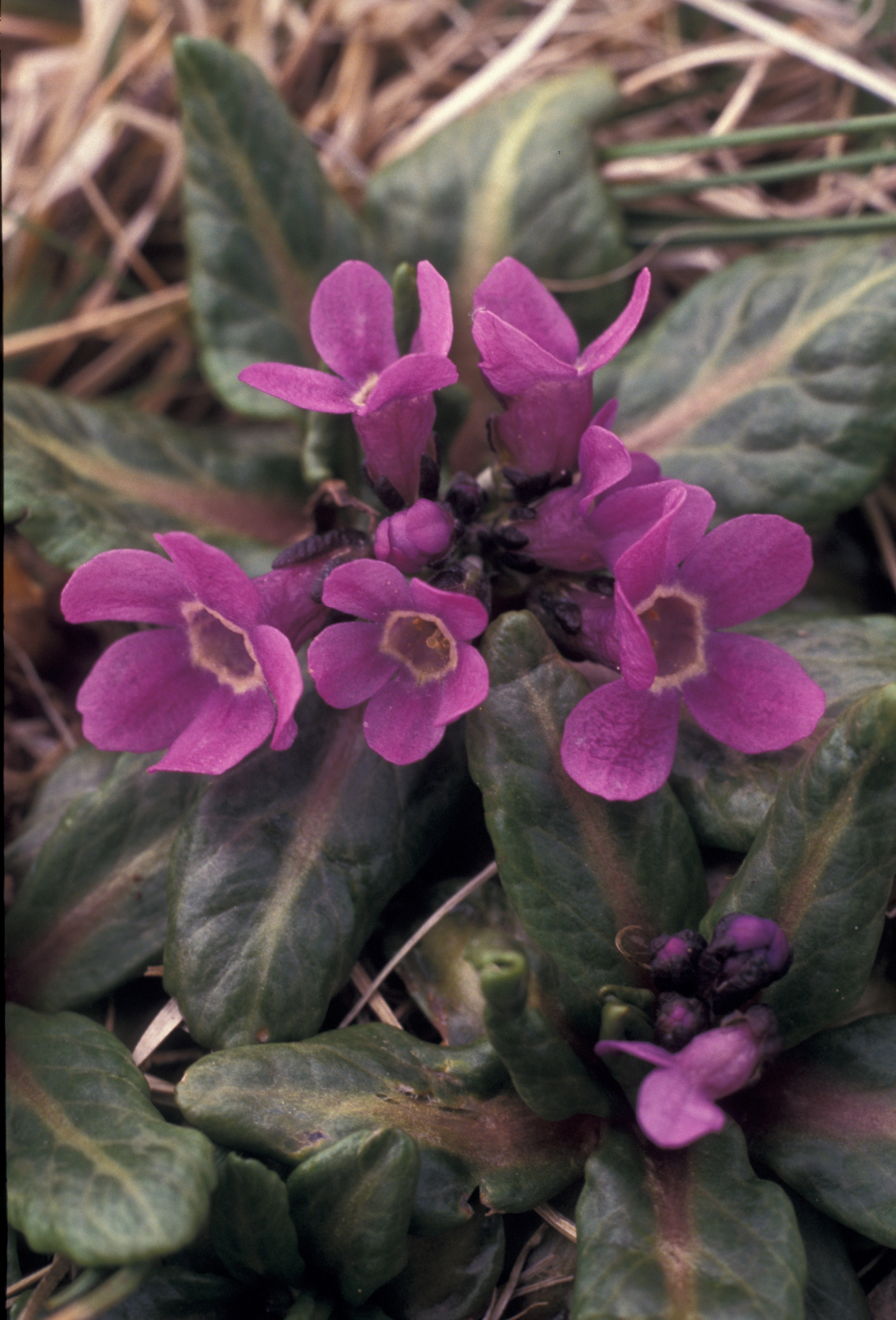 Primula tschuktschorum blooms on the Pribilof Islands in the Alaska Maritime National Wildlife Refuge ( (USFWS)